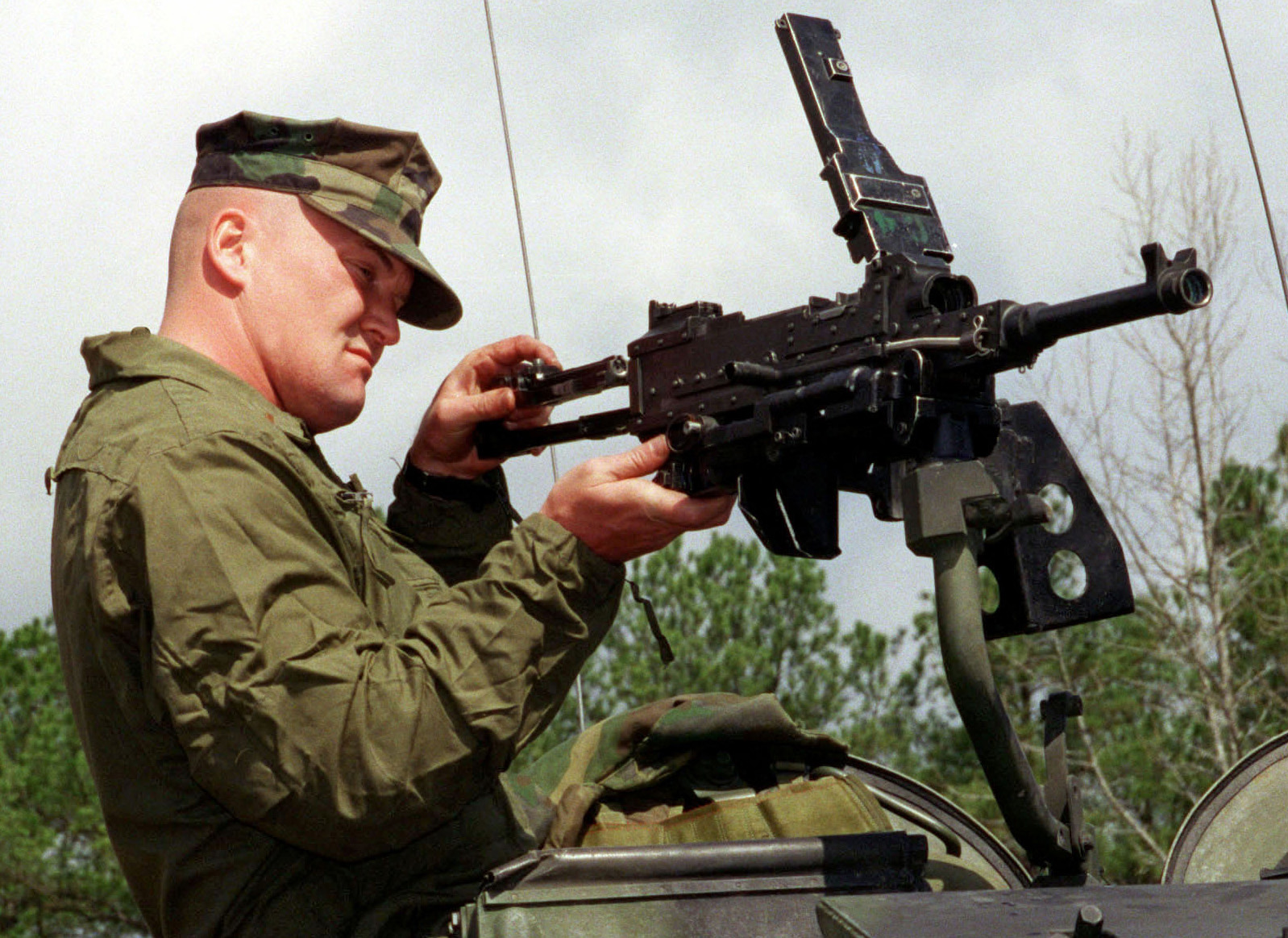 This image has been cropped from the original to better bring out the subject.